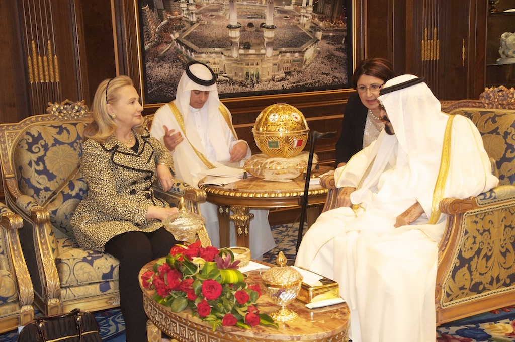 U.S. Secretary of State Hillary Rodham Clinton meets with the Custodian of the Two Holy Mosques, King Abdullah of Saudi Arabia, in Riyadh on March 30, 2012. [State Department photo/ Public Domain]